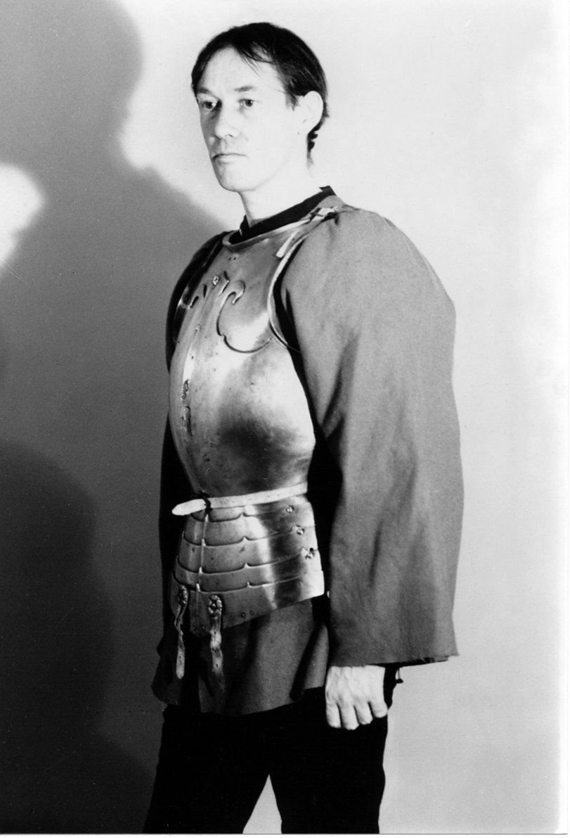 A late fifteenth century gothic breastplate.